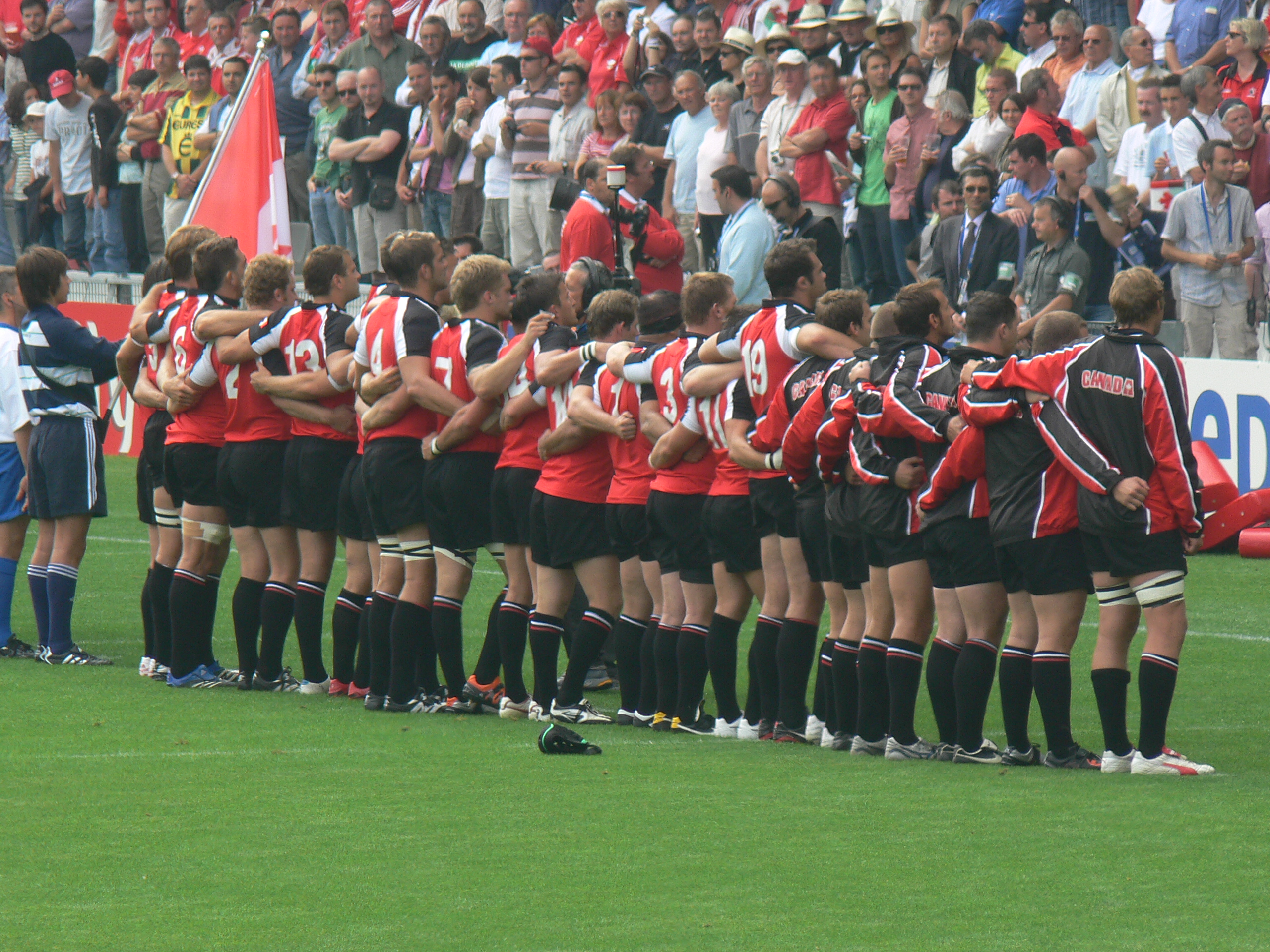 Rugby World Cup 2007